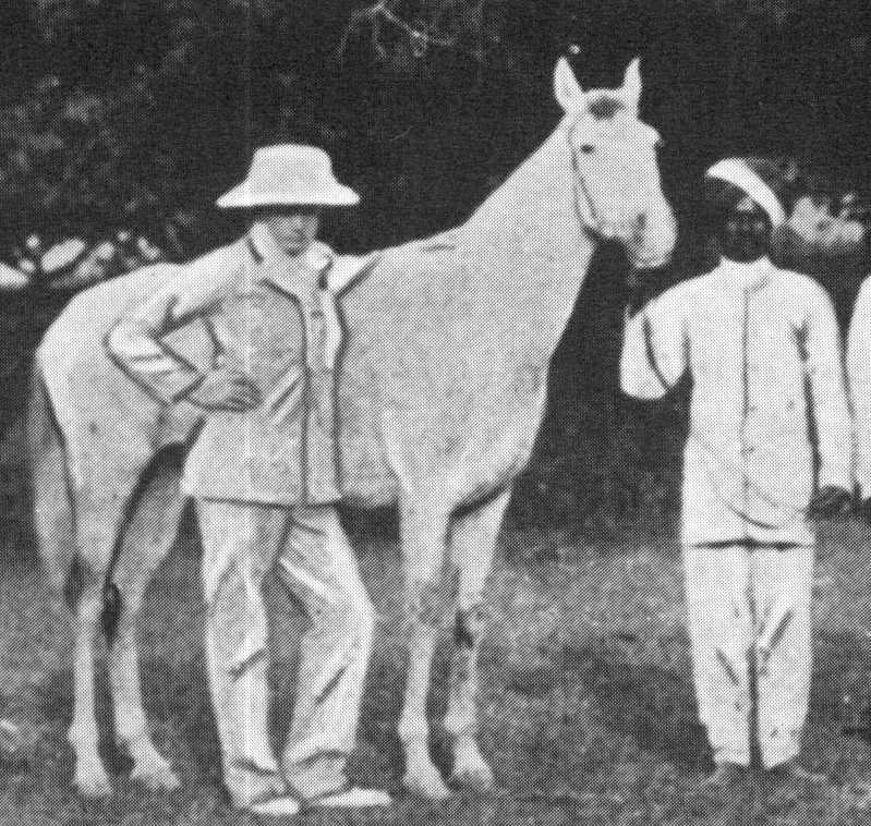 Winston Churchill with his Polo horse in India in 1897.